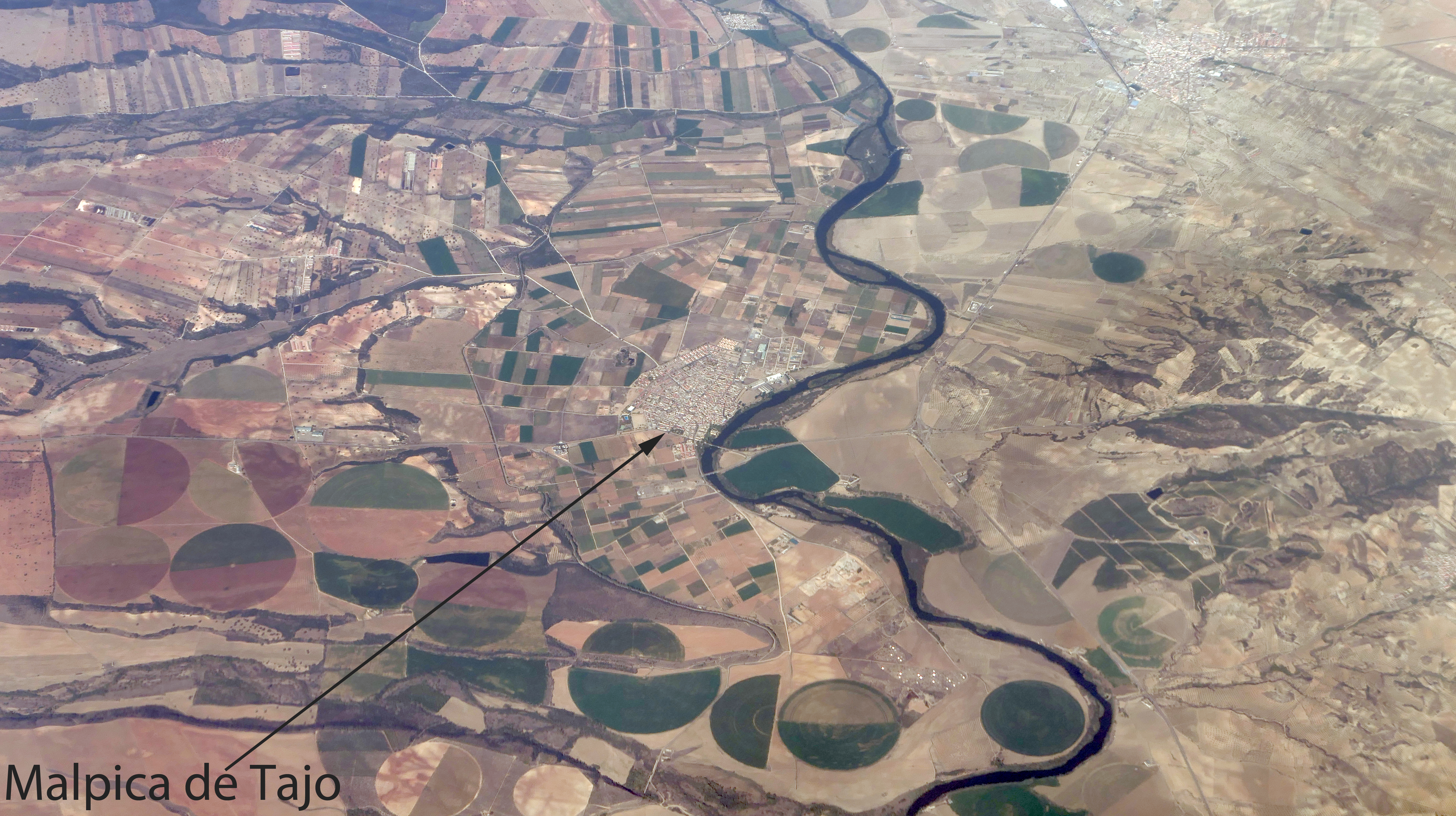 An aerial photograph of the town of Malpica de Tajo and the surrounding area. It includes part of the river Tagus. It was taken in September.